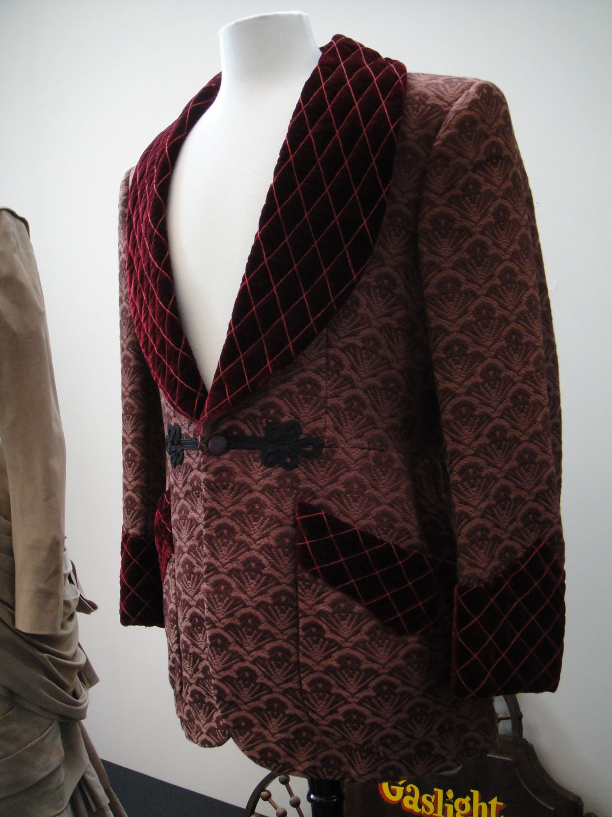 Charles Boyer "Gregory Anton" burgundy smoking jacket from "Gaslight".